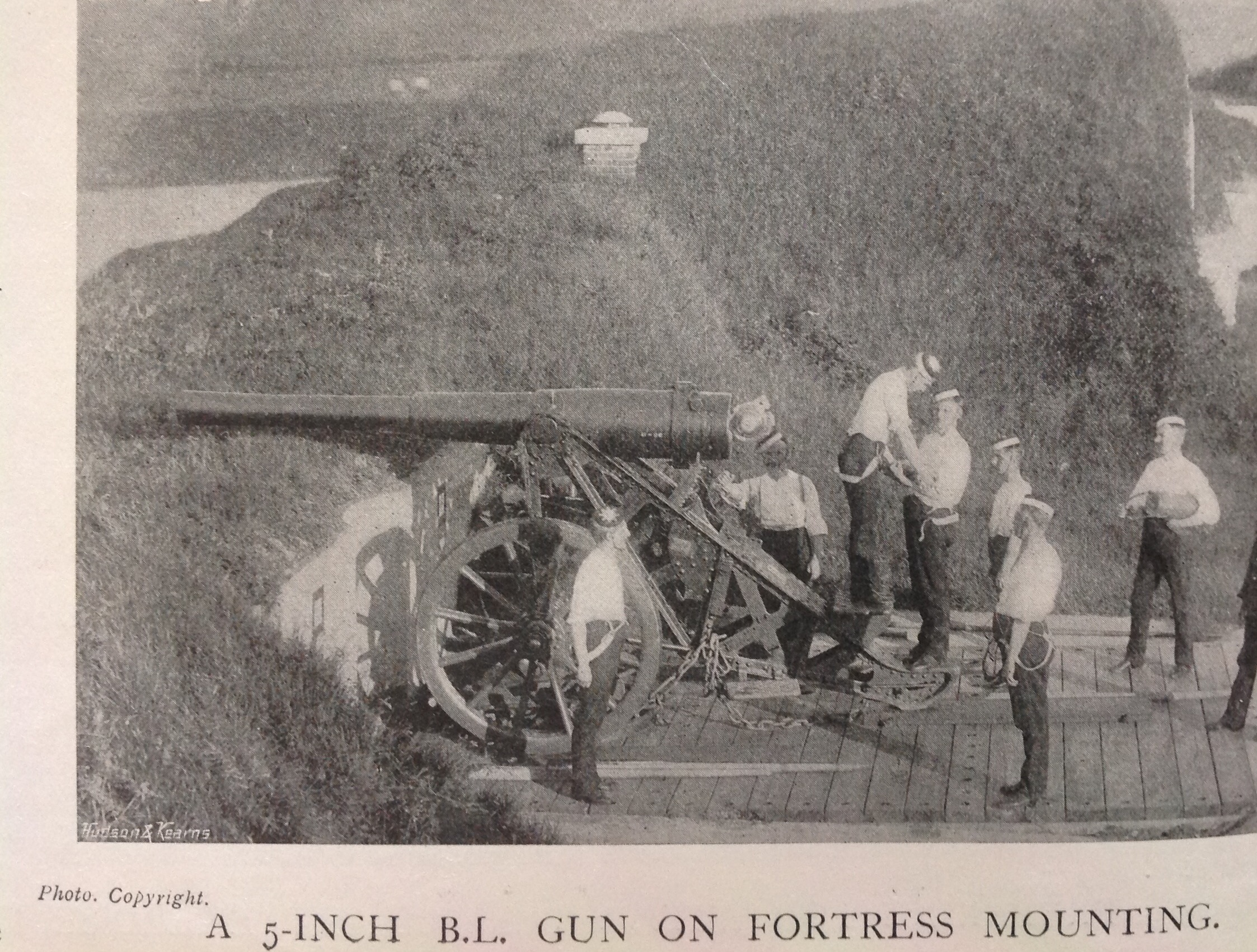 5-inch Breech Loading (BL) gun on Fortress mount. Taken from Navy and Army Illustrated, 1900